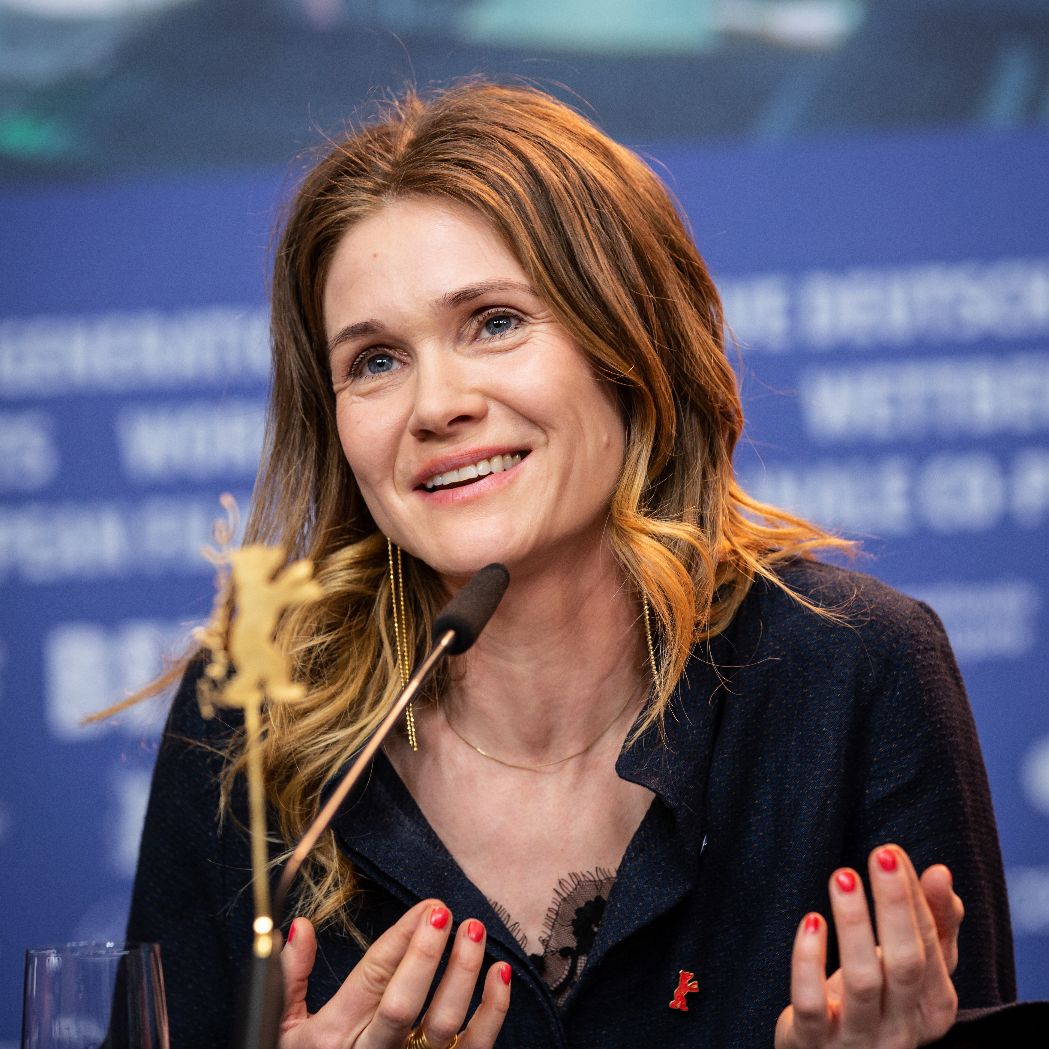 Actress Lisa Hagmeister at the Berlinale 2019